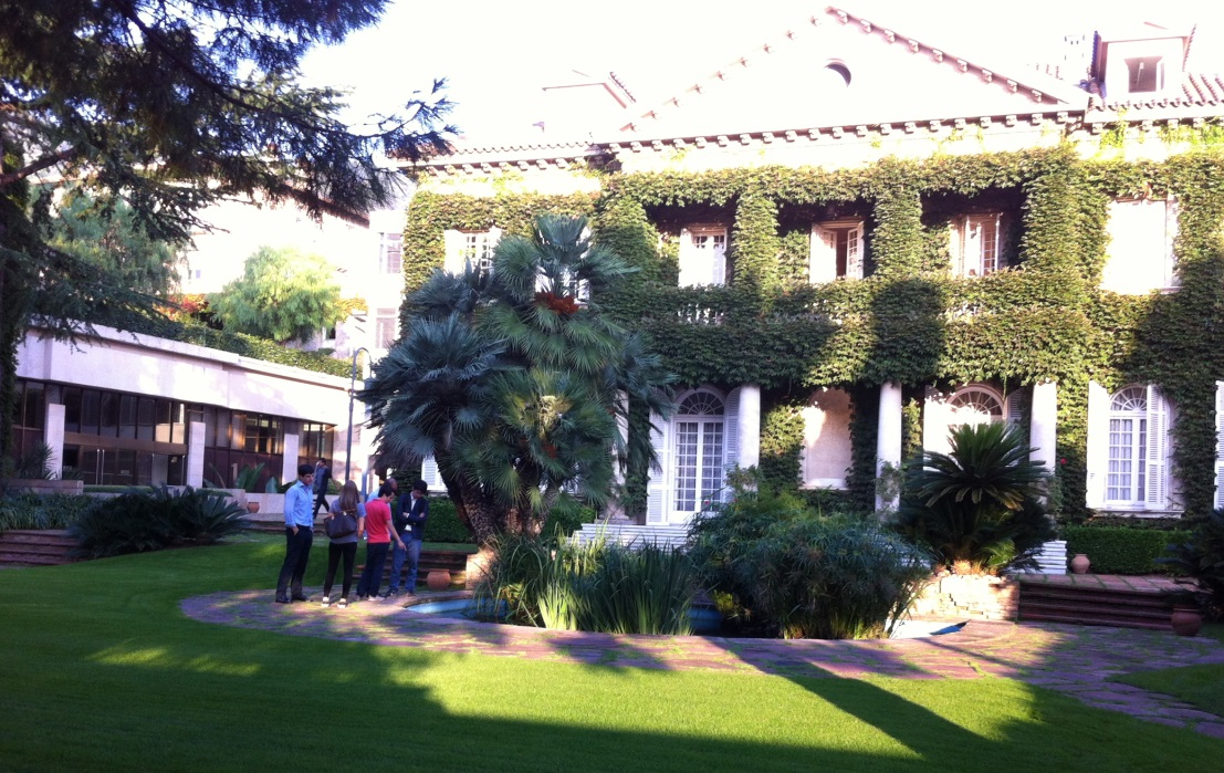 Campus of IESE Business School